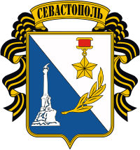 Variant of Coat of Arms of Sevastopol with Guard ribbon.